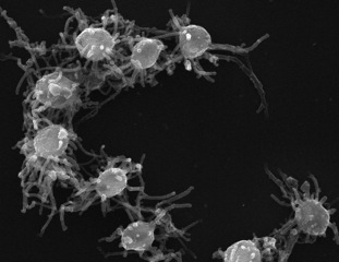 Capsaspora owczarzaki, one of the two filasterean genera